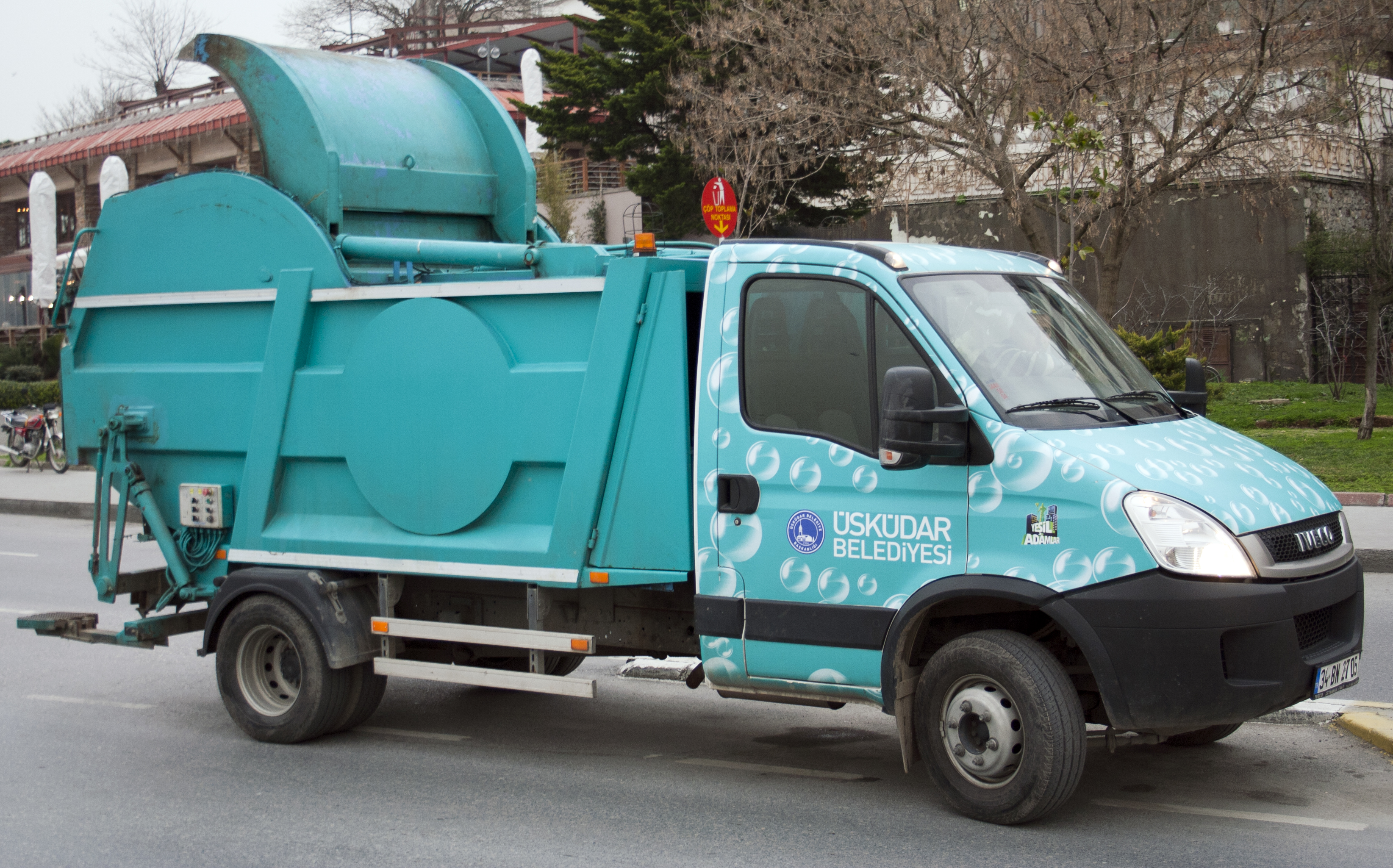 Iveco EcoDaily garbage truck belonging to the Üsküdar municipal government, Istanbul.